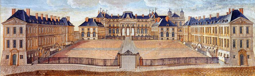 18th century drawing or painting of the Château de Lunéville, Lorraine